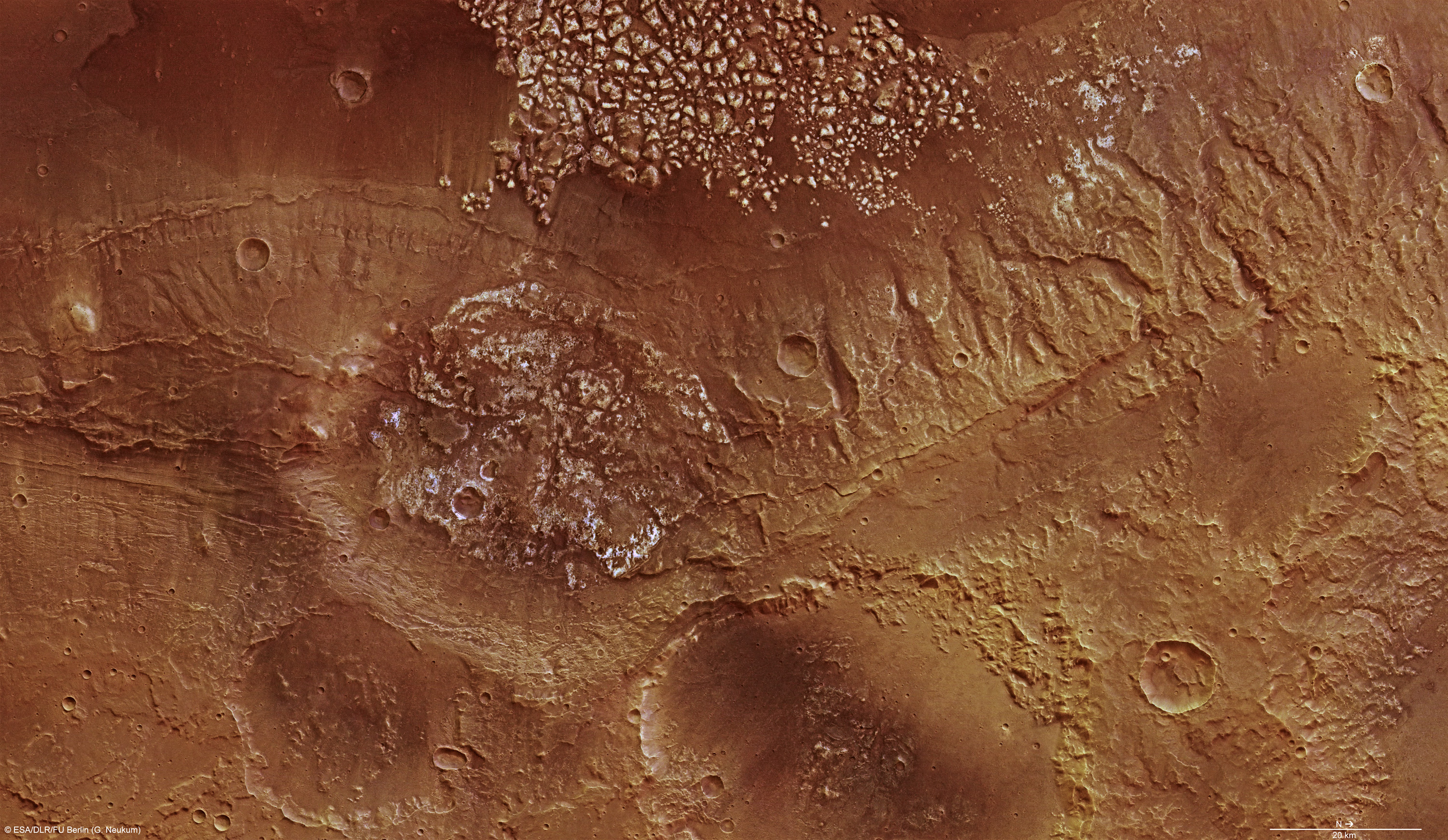 The region around Magellan Crater stretches across 190 x 112 km, and covers an area of about 21 280 sq km, which is roughly the size of Slovenia. It is to the southwest of the volcanic region Tharsis on the southern highlands of Mars. With a ground resolution of about 25 m per pixel, the data were acquired for the region of Magellan Crater at about 34°S/185°E, during Mars Express’s orbit 6547 on 6 February 2009.